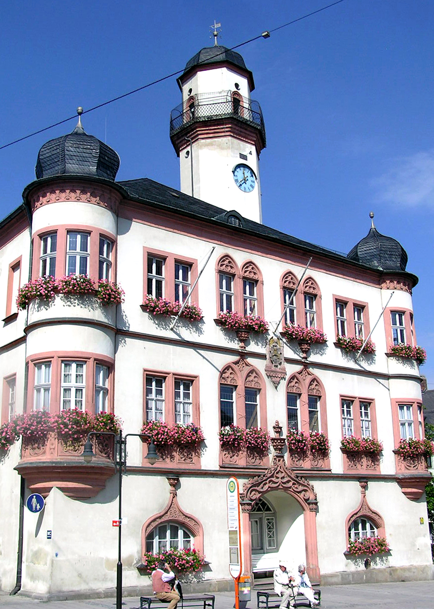 Rathaus in Hof (Germany) Source: Eigene Fotografie